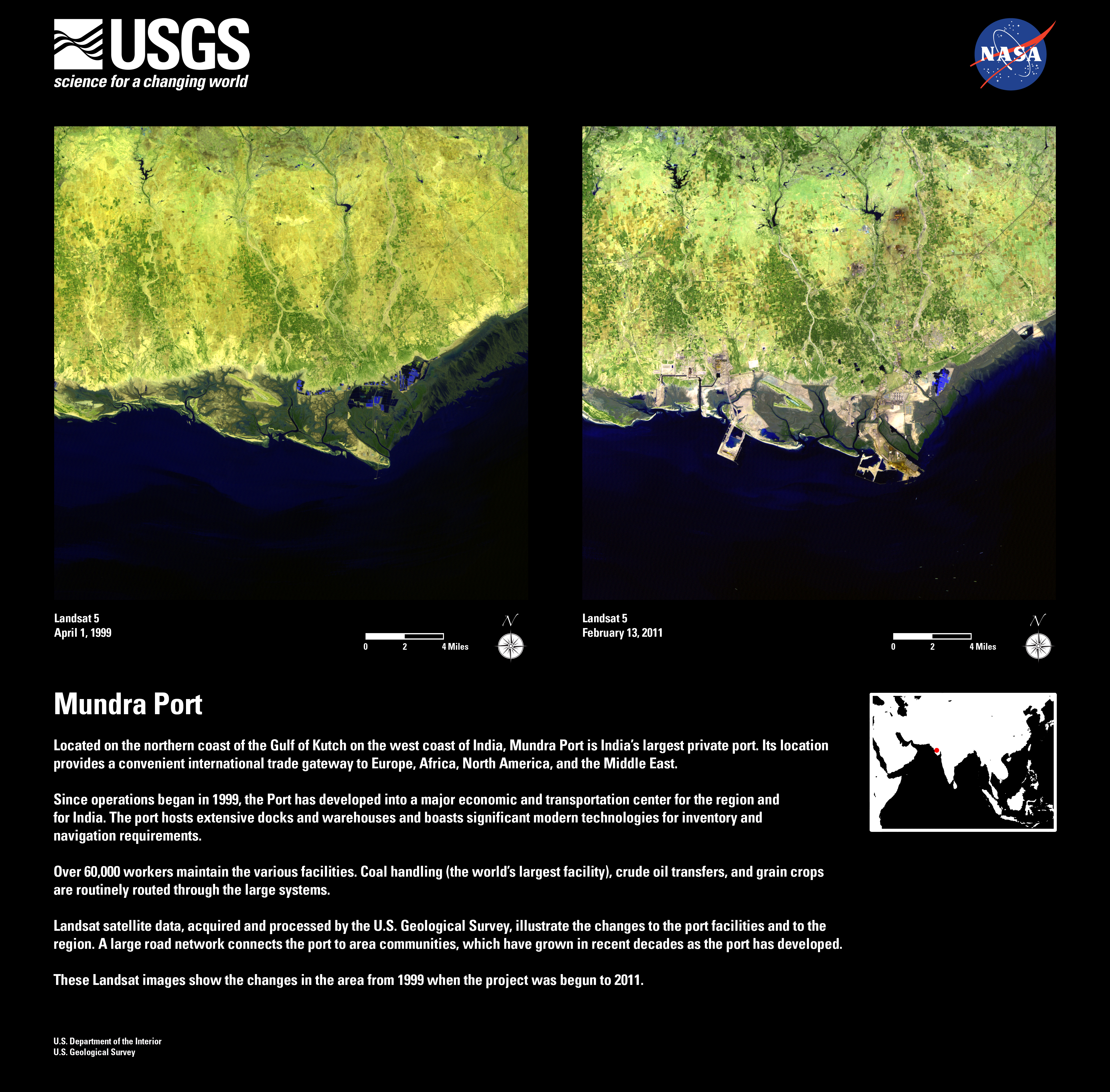 Credit: The caption below is per USGS and NASA, US Government publication. Located on the northern coast of the Gulf of Kutch on the west coast of India, Mundra Port is India's largest private port. Its location provides a convenient international trade gateway to Europe, Africa, North America, and the Middle East. Since operations began in 1999, the Port has developed into a major economic and transportation center for the region and for India. The port hosts extensive docks and warehouses and boasts significant modern technologies for inventory and navigation requirements. Over 60,000 workers maintain the various facilities. Within 10 years since its start, it has become the world's largest facility for coal handling. It has grown to become India's major port for crude oil transfers, as well as grain crops which are routinely routed through the large systems. Landsat satellite data, acquired and processed by the U.S. Geological Survey, illustrate the changes to the port facilities and to the region. A large road network connects the port to area communities, which have grown in recent decades as the port has developed. These Landsat images show the changes in the area over 12 year period, from 1999 when the project was launched, to 2011.